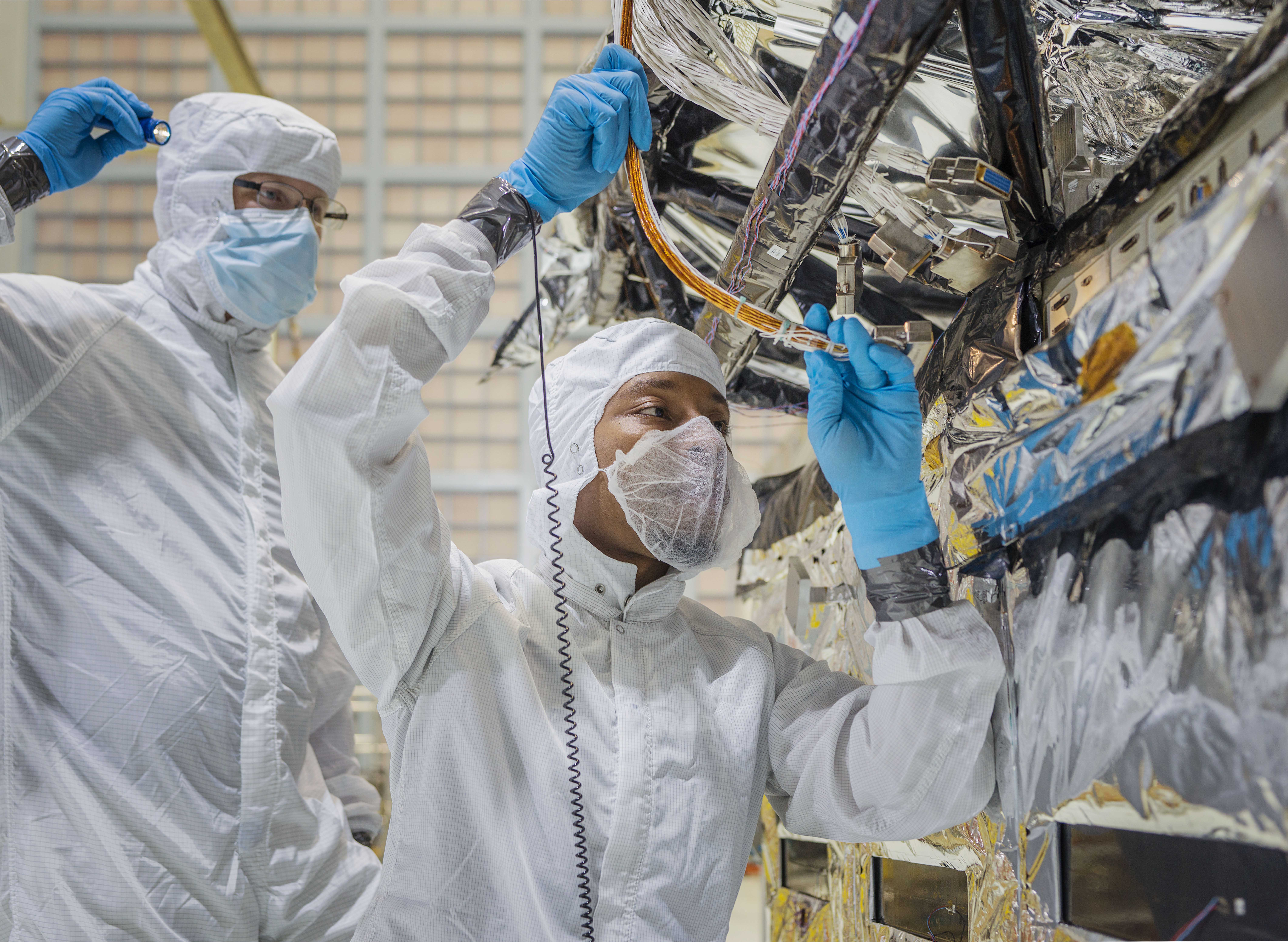 Performing fit check of electronic harnessing for the James Webb Space TelescopePictured above is Kenneth Harris II preparing to enter a cleanroom at NASA Goddard. By age 24, Kenneth Harris II had already become the youngest African American to perform and lead an integration efforts on the James Webb Space Telescope (JWST), a combined mission between the National Aeronautics and Space Administration (NASA), the European Space Agency (ESA), and the Canadian Space Agency (CSA) that serves as a successor to the highly popular Hubble Space Telescope; however, this was not his first mission. In fact, he has completed work on four successful satellite missions over the course of his more than nine year tenure at NASA Goddard Space Flight Center through a combination of paid internships, academic projects, volunteer positions, and career opportunities.